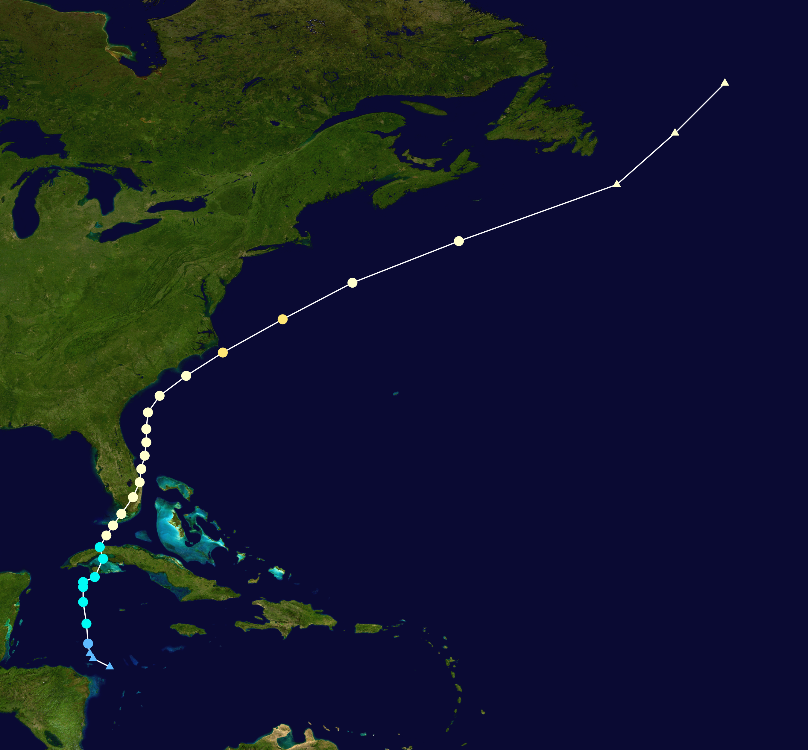 Track map of Hurricane Irene of the 1999 Atlantic hurricane season. The points show the location of the storm at 6-hour intervals. The colour represents the storm's maximum sustained wind speeds as classified in the Saffir–Simpson scale (see below), and the shape of the data points represent the nature of the storm, according to the legend below. Saffir–Simpson scale Tropical depression≤38 mph≤62 km/h Category 3111–129 mph178–208 km/h Tropical storm39–73 mph63–118 km/h Category 4130–156 mph209–251 km/h Category 174–95 mph119–153 km/h Category 5≥157 mph≥252 km/h Category 296–110 mph154–177 km/h Unknown Storm type Tropical cyclone Subtropical cyclone Extratropical cyclone / Remnant low / Tropical disturbance / Monsoon depression